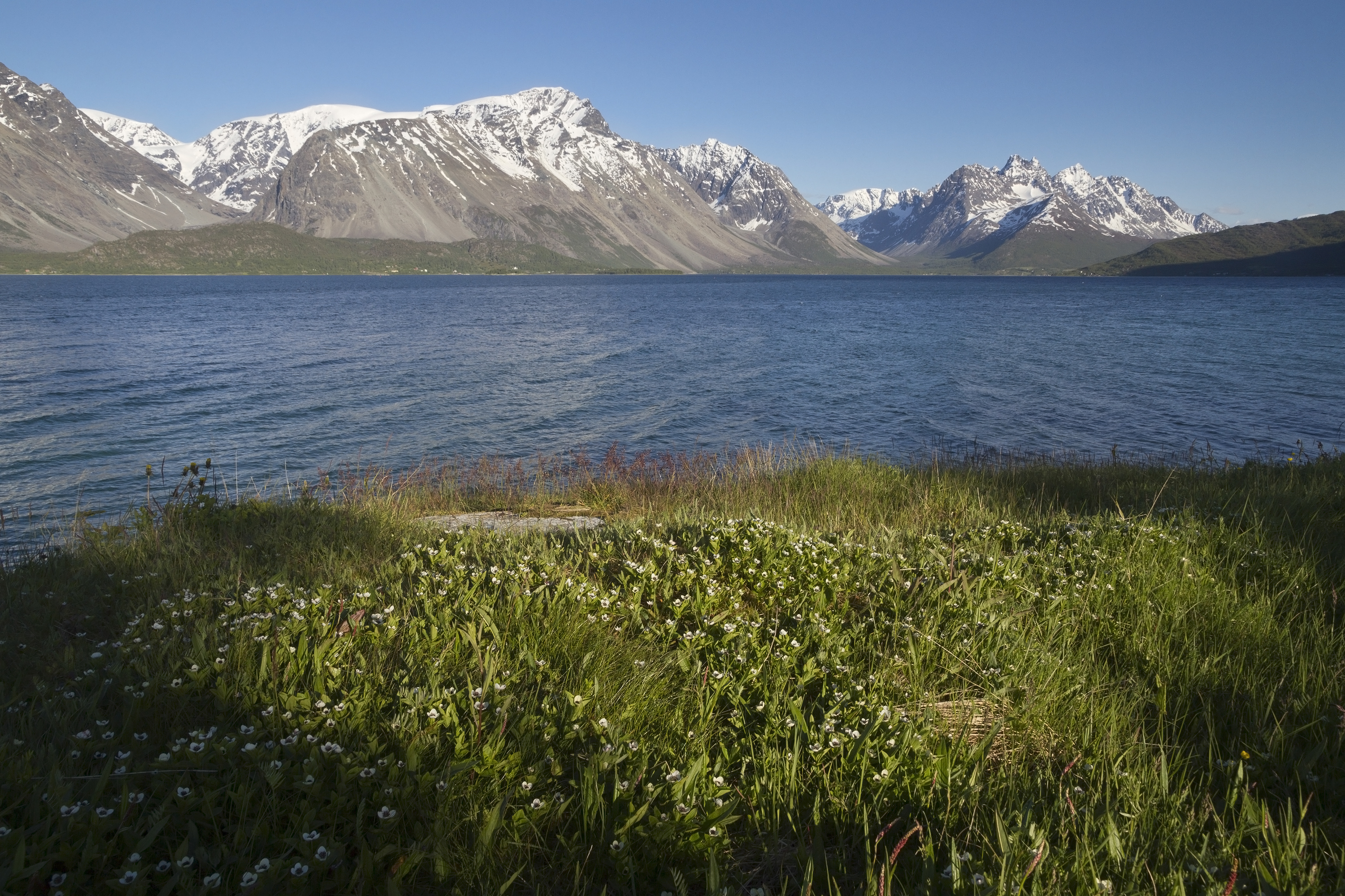 A view over Sørfjorden, (Ullsfjorden) as seen from Ullsfjord village on the west coast of the fjord in Troms, Norway in 2012 June. Bunchberry (Cornus suecica) flowers growing below. The mountains in the background include the Jiehkkevárri massif and Lakselvtindane.